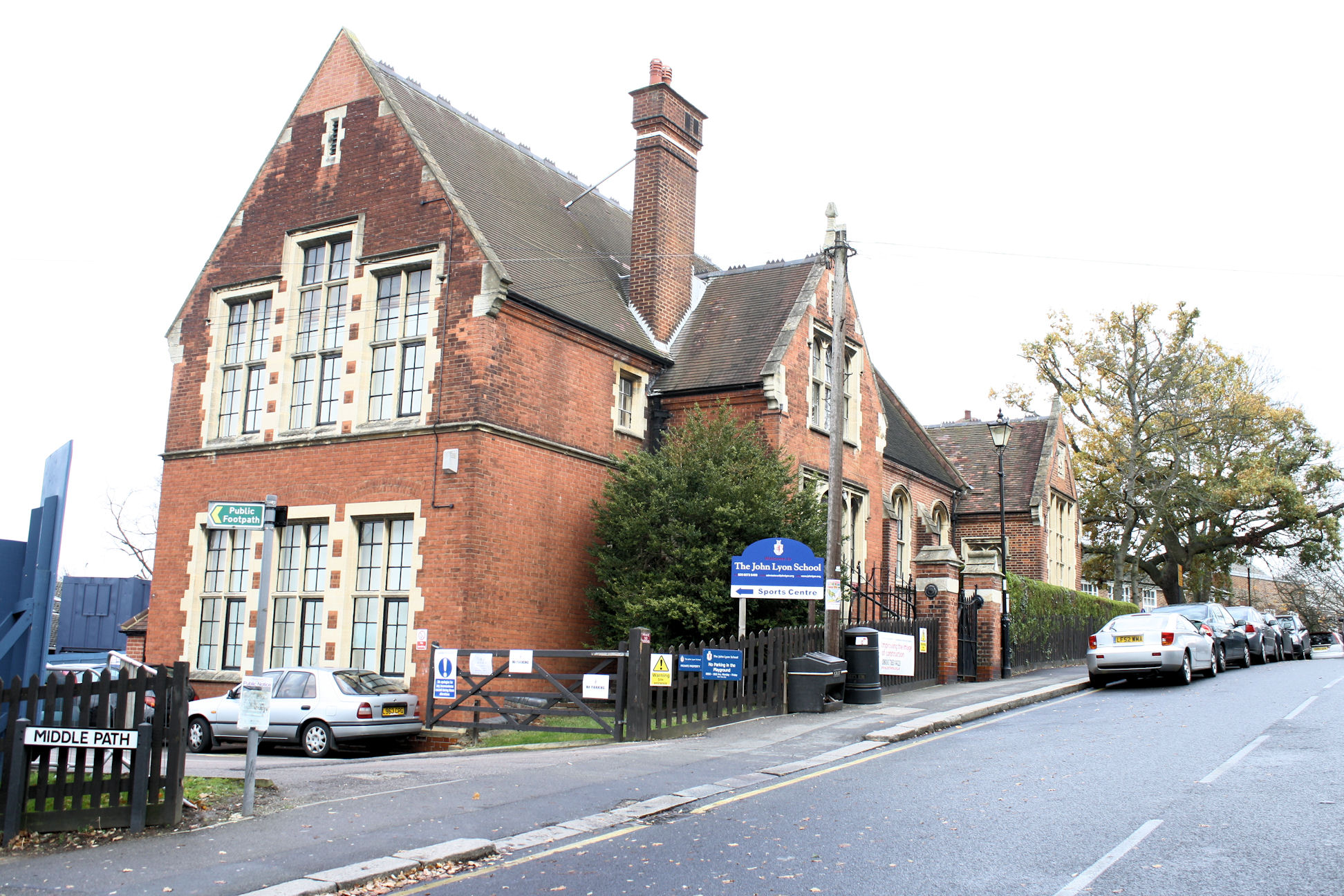 A photo of the rear of this, the original school building, that was taken while a new catering block was being built was originally posted on this page and included in the Guess Where UK Group.